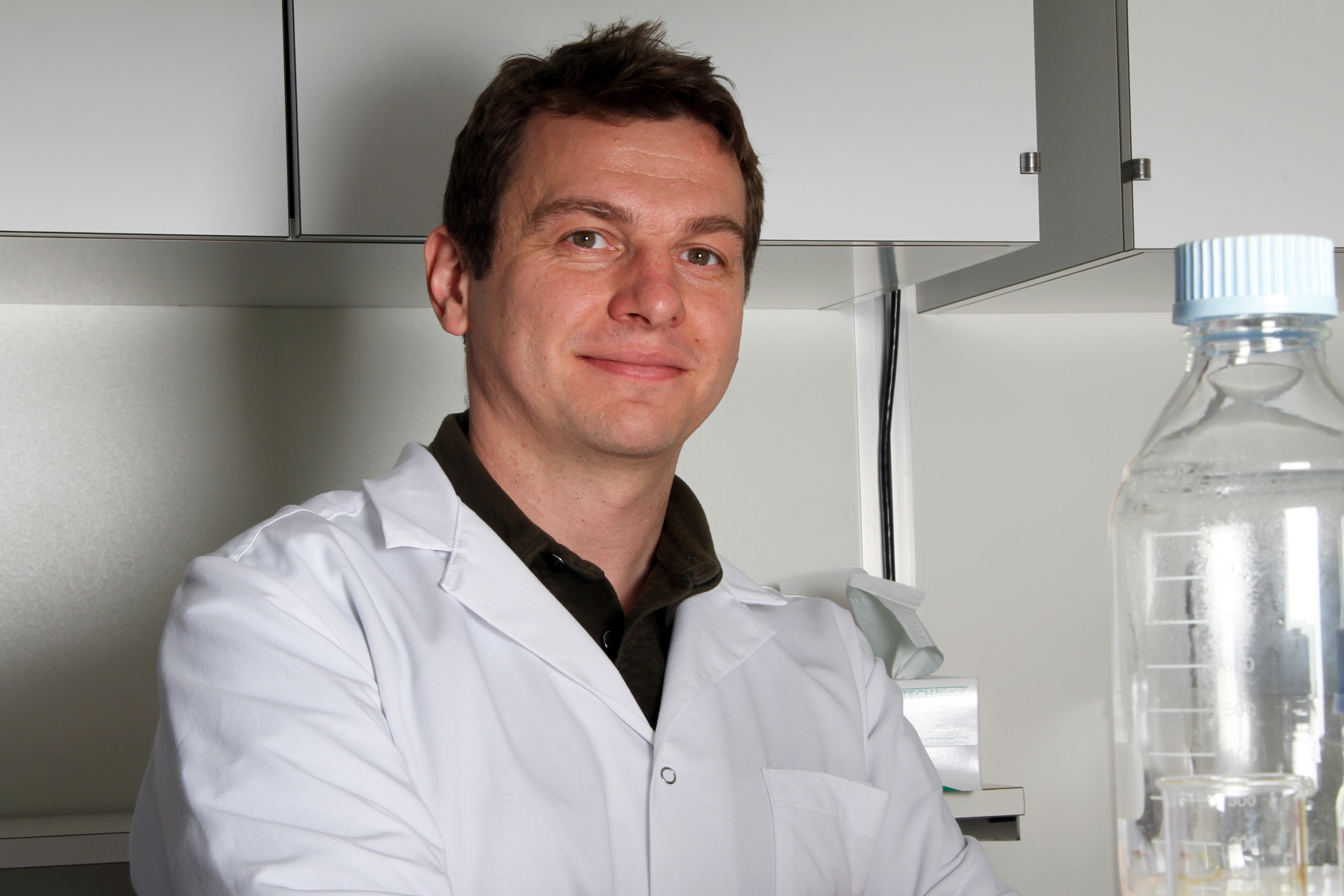 Professor Attila Becskei